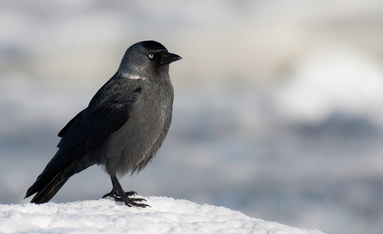 A Jackdaw in Kadriorg, Tallinn, Harju County, Estonia. It is standing on snow.